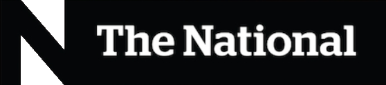 Logo of CBC News' flagship newscast The National, as of 6 November 2017